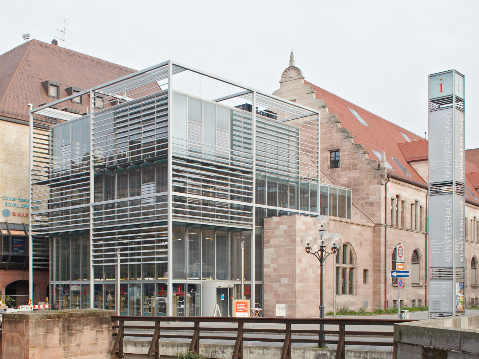 Picture of the Kulturzentrums K4 Nuremberg, seen from South-South-East.